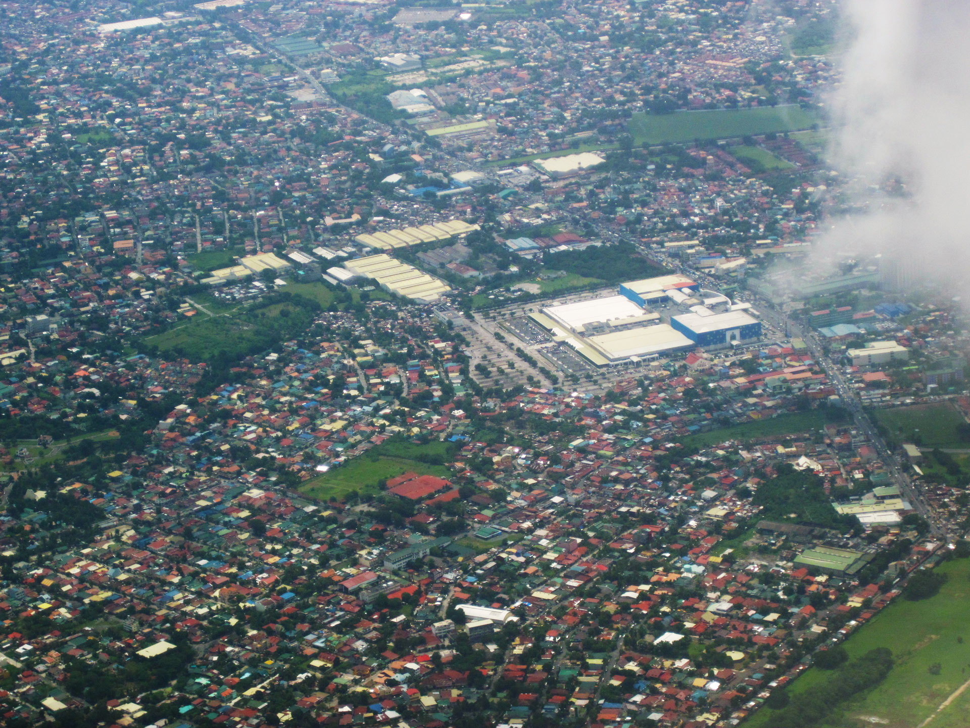 An aerial photograph of Barangay Talon of Las Pinas City Philippines. SM Southmall at middle.